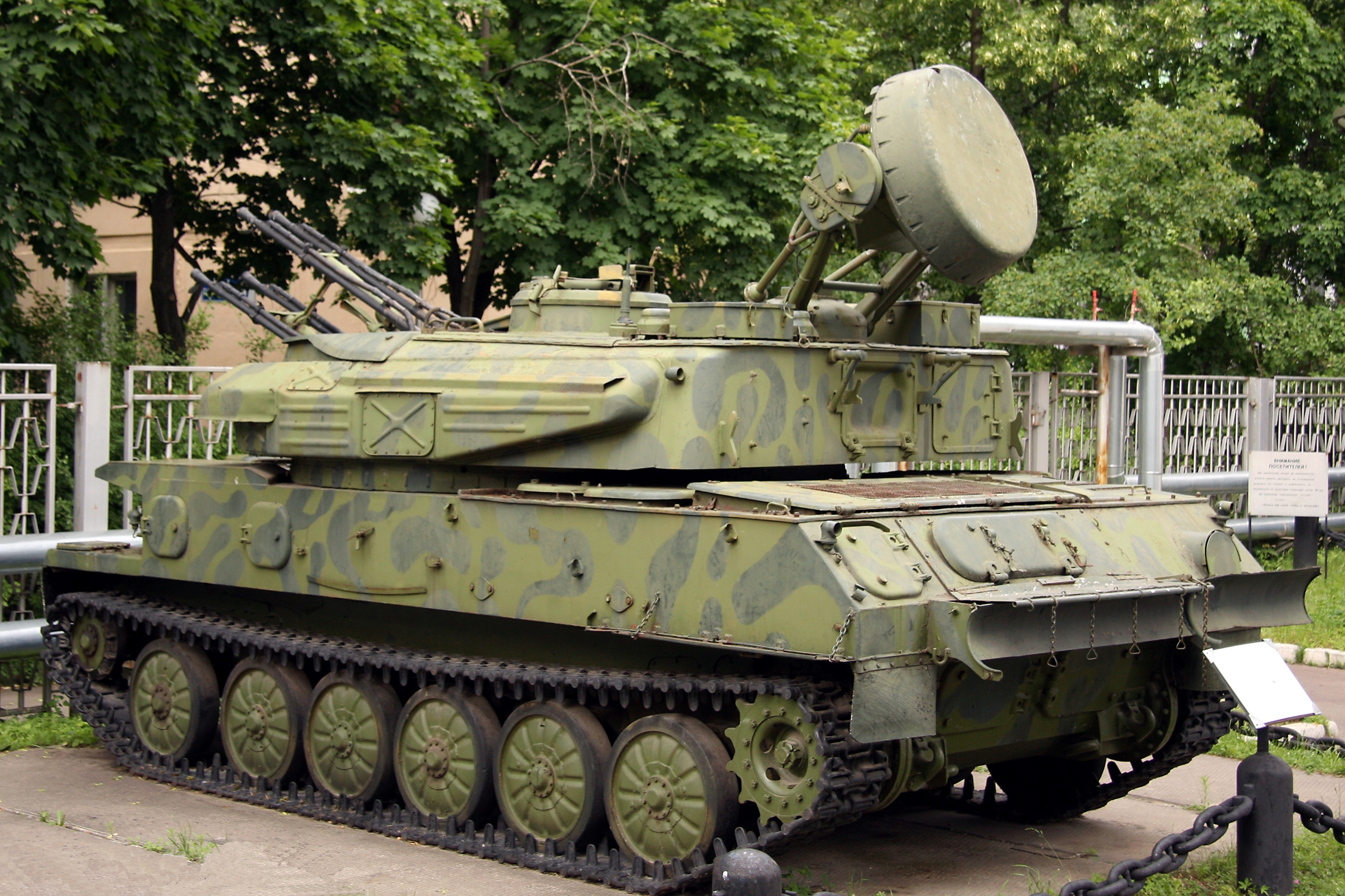 Air Defense History Museum in Zarya in Moscow Oblast.